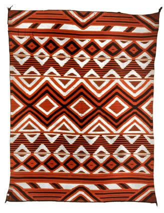 Classic serape Tapestry weave, interlocked joins 1.29 x 1.67 m; Tassels 0.060 m 65.748 x 50.787 in.; Tassels 2.362 in.